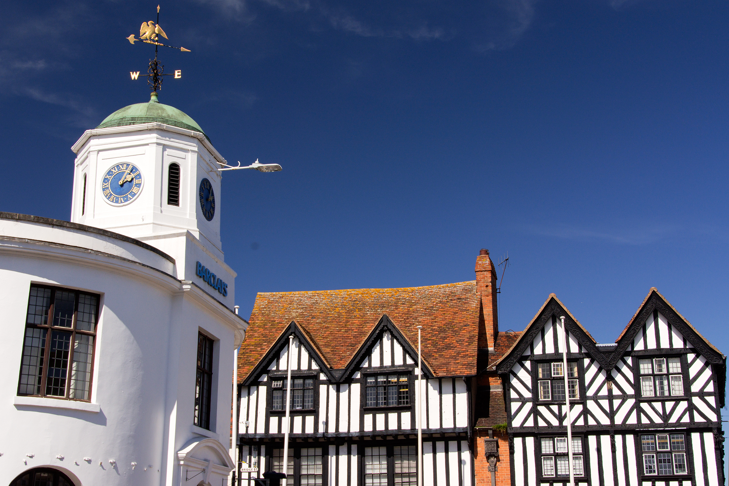 Historic Buildings, Downtown, Stratford-Upon-Avon, England (2016)